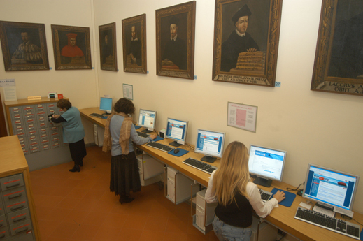 Augusta Library, Catalogues room